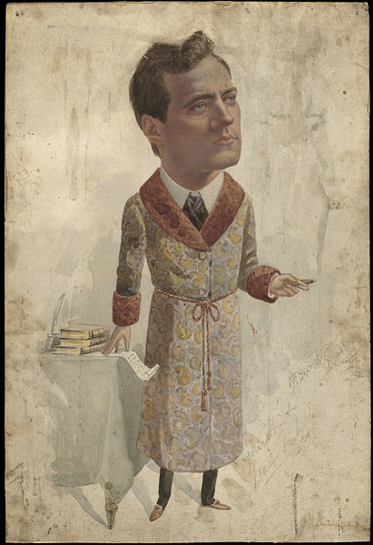 Watercolour of Walter Melville of the Melville acting family, by George Bernasconi.